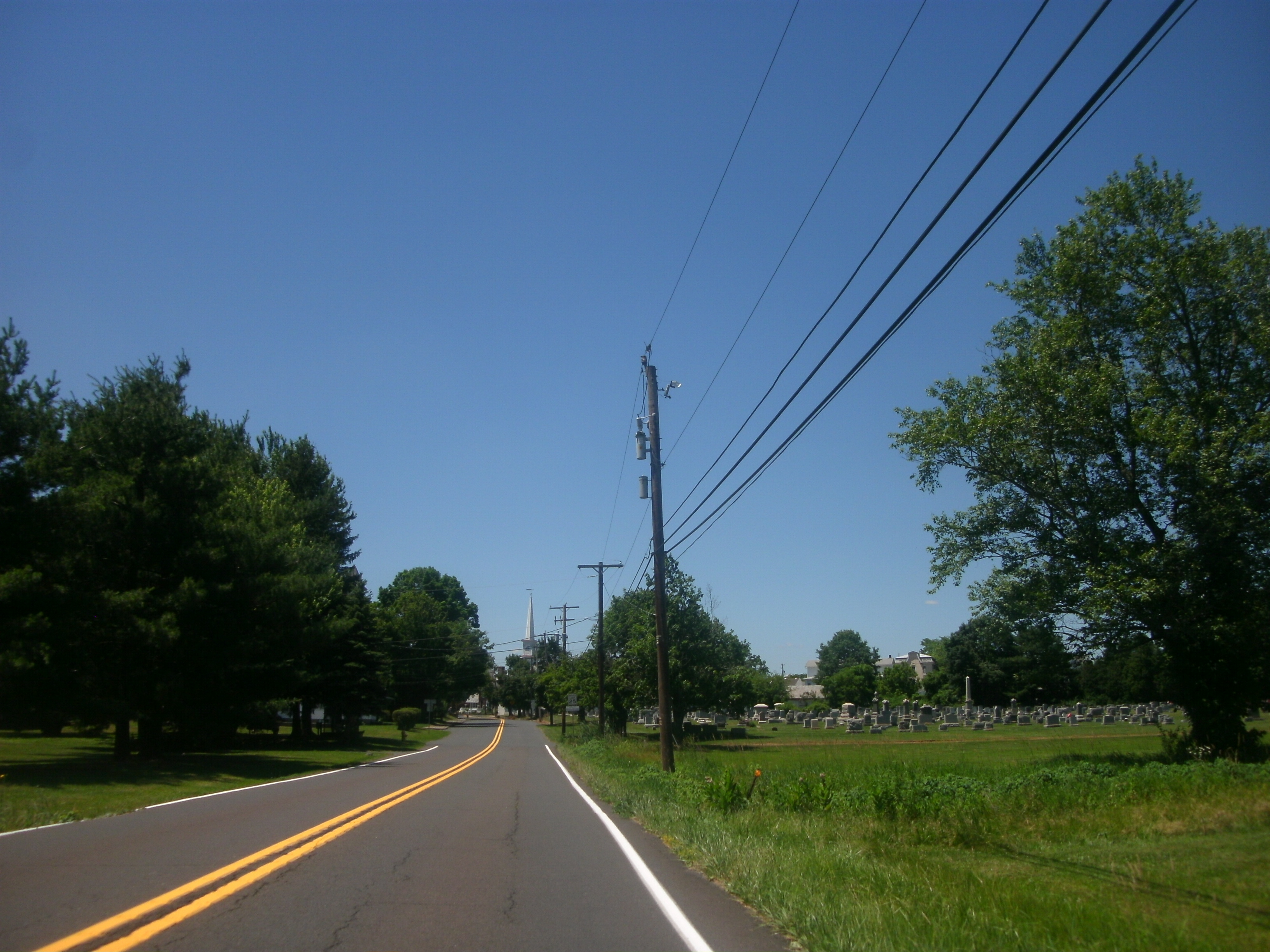 Pennsylvania Route 212 westbound passing through a cemetery in Springfield Township, Bucks County, Pennsylvania.